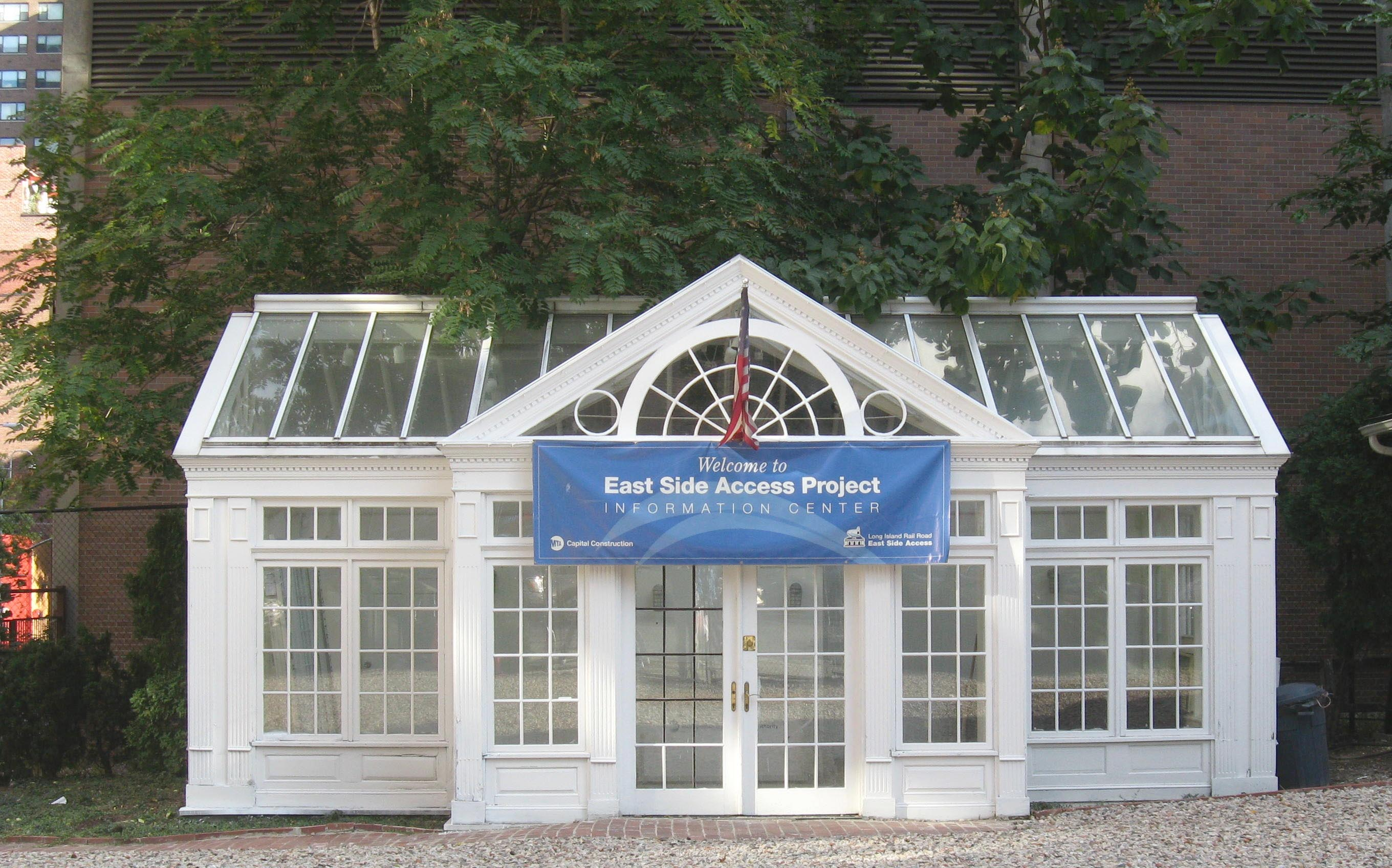 Looking east from Second Avenue at the East Side Access Information Center in the shade on a sunny afternoon. ZIP 10021.